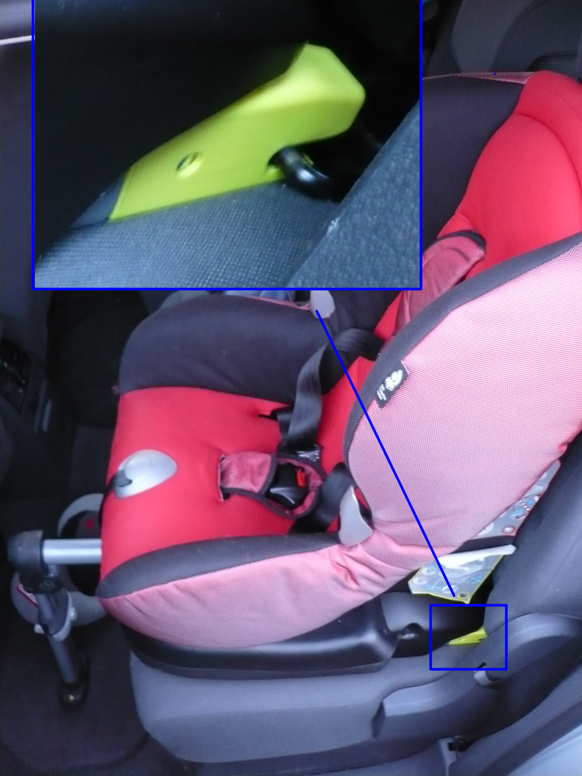 Anchorpoints for ISOFIX child car seats